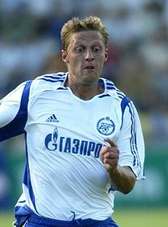 Robertas Poškus in action for FC Zenit St. Petersburg